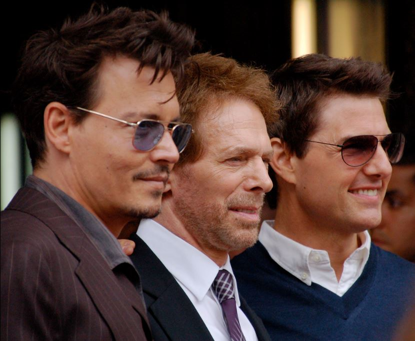 Johnny Depp, Jerry Bruckheimer, and Tom Cruise at a ceremony for Bruckheimer to receive a star on the Hollywood Walk of Fame.